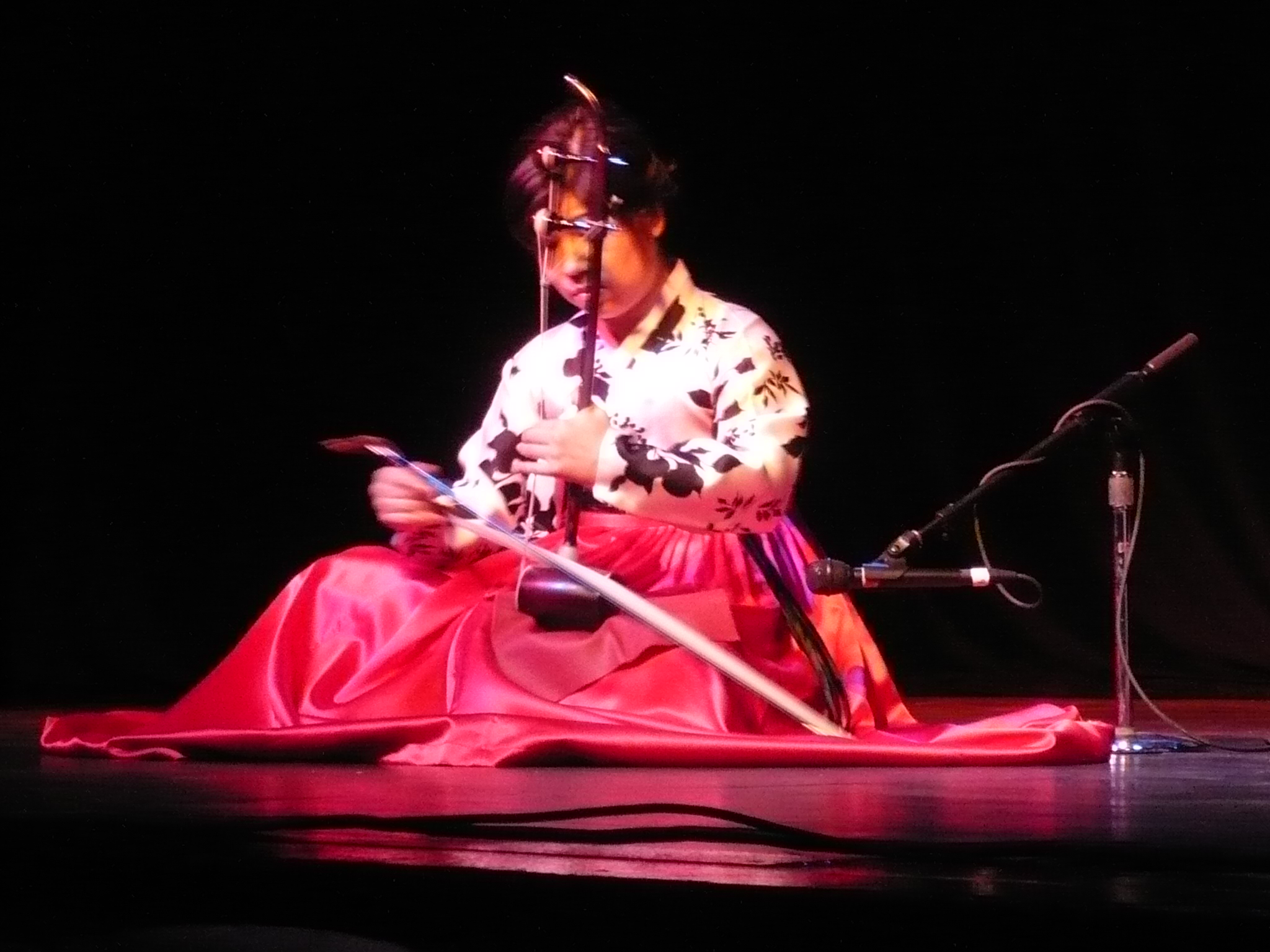 Jung Su-nyun (professor at the School of Traditional Korean Arts, Korea National University of Arts in Seoul, South Korea) playing the haegeum (Korean 2-stringed vertical fiddle). Photo taken at the Kent Stage in Kent, Ohio, United States.